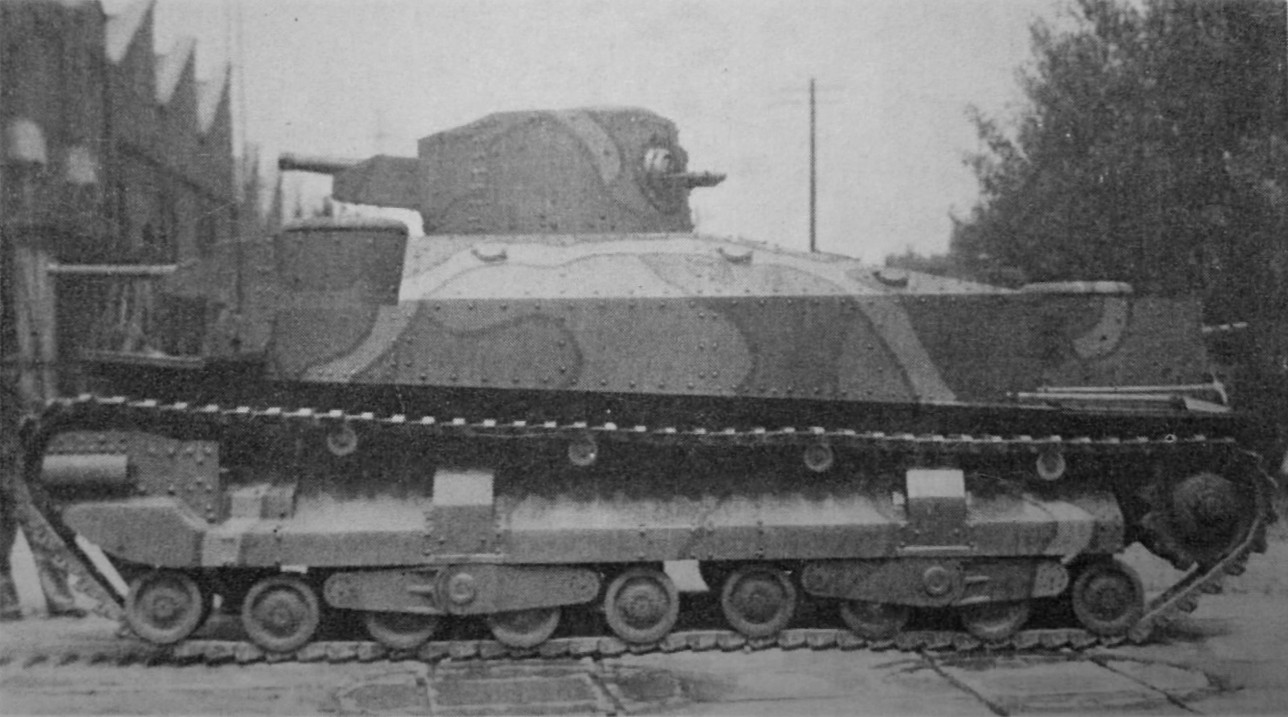 Imperial Japanese Army Type 95 Heavy Tank